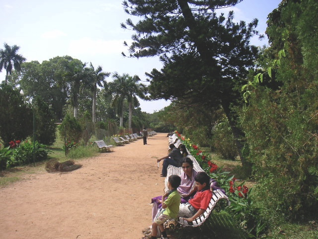 Thiruvananthapuram, Kerala, India.